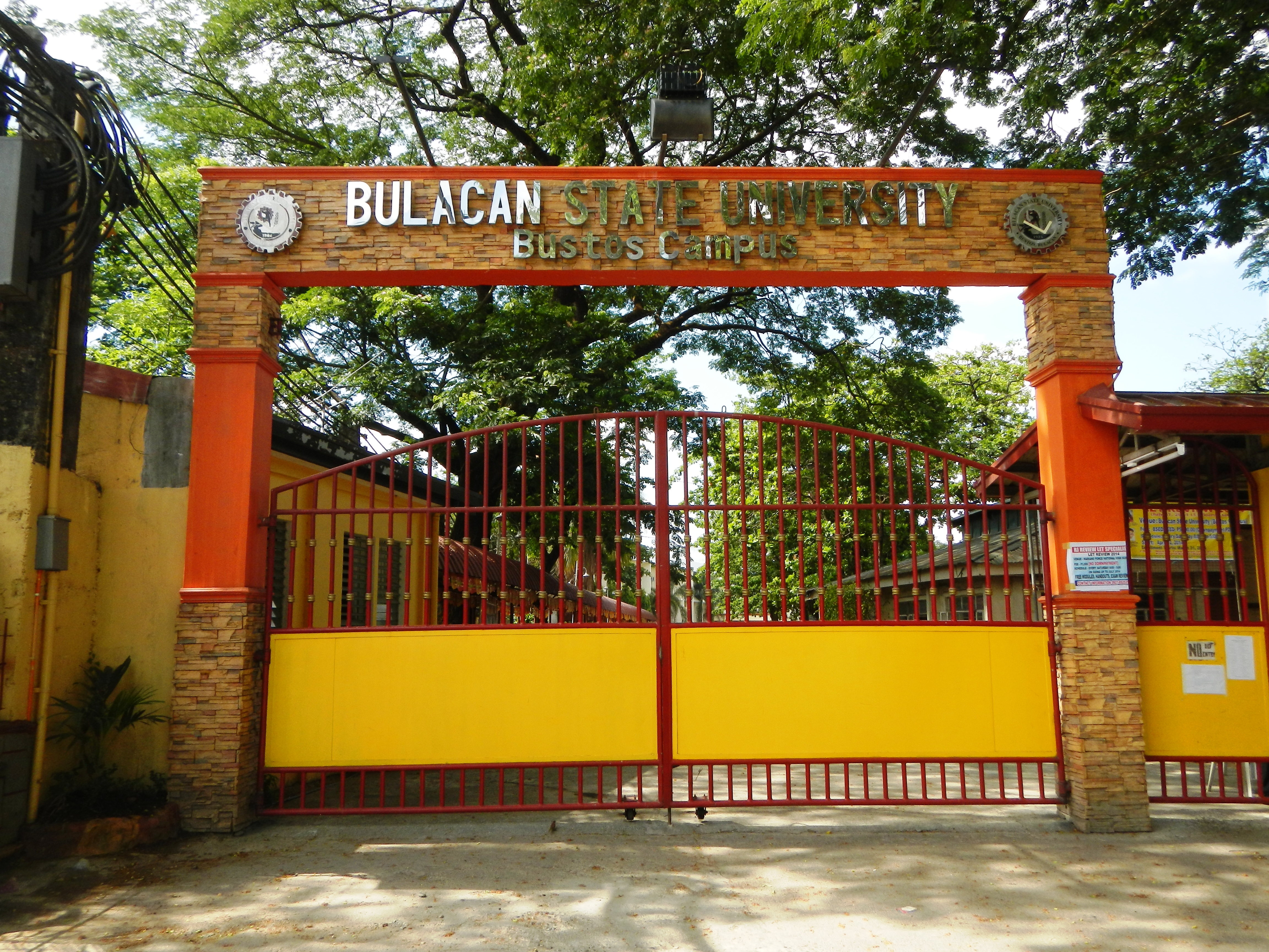 Save the Unborn Monument, beside Barangay Poblacion Hall and Welcome Sign of Bustos, Bulacan and the "It can be done all the time" September, 1973 War Memorial Park (for the 23,000 dauntless Guerillas of the Bulacan Military Area) in front of the Santo Niño Parish Church in Bustos, Bulacan beside the Bulacan State University - Bustos Campus at C. L. Hilario st. corner Mercado St., C.L. Hilario st. cor. L. Mercado st., along the General Alejo Santos Highway.